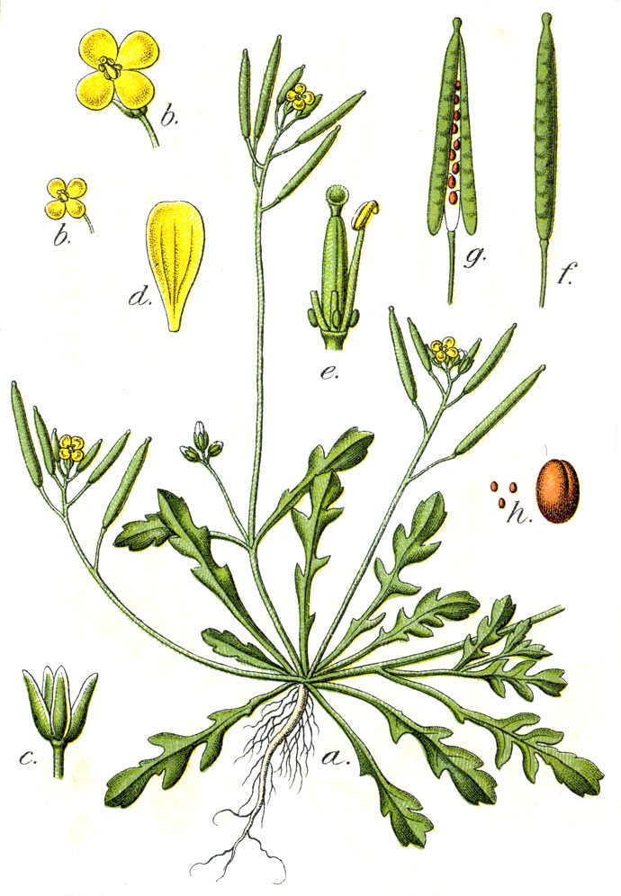 Diplotaxis viminea (L.) DC., syn. Crucifera viminea E.H.L.Krause Original Caption Ruthen-Rauke, Crucifera viminea